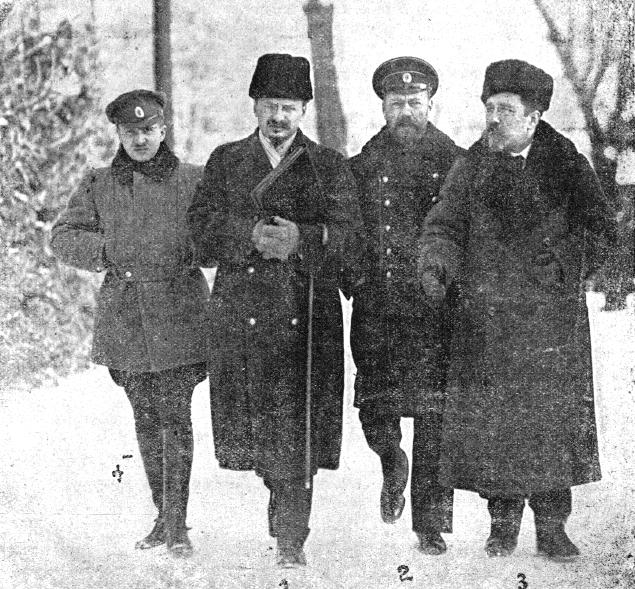 Vladimir Lipsky, military technical adviser, Leon Trotsky, People's Commissariat for Foreign Affairs, Vasili Altfater, navy technical adviser and Lev Kamenev, First Chairman of VTsIK during Treaty of Brest-Litovsk negotiations.